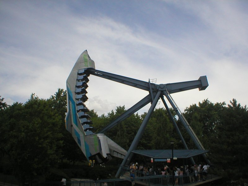 The Jet Scream ride at Canada's Wonderland. Vaughan, ON